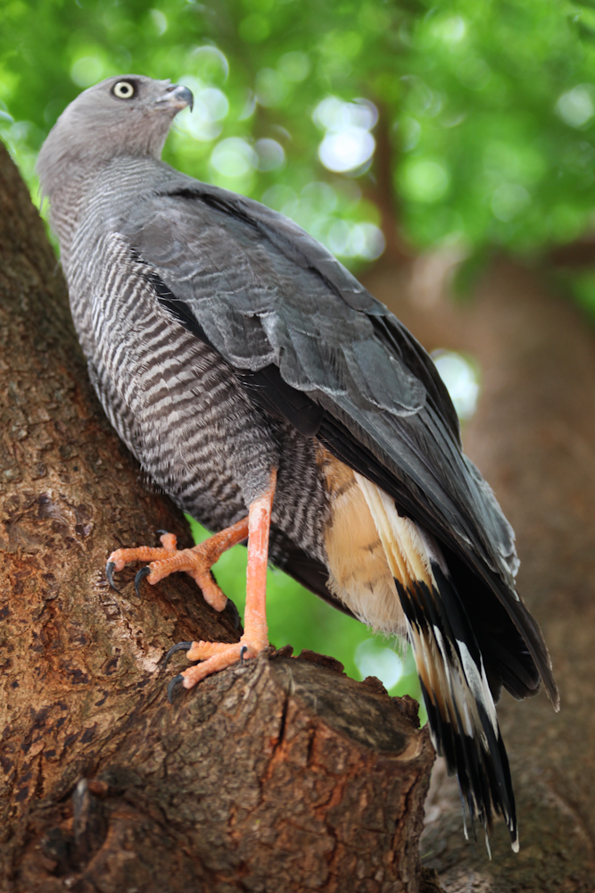 Crane Hawk in the Pantanal, Mato Grosso, Brazil.